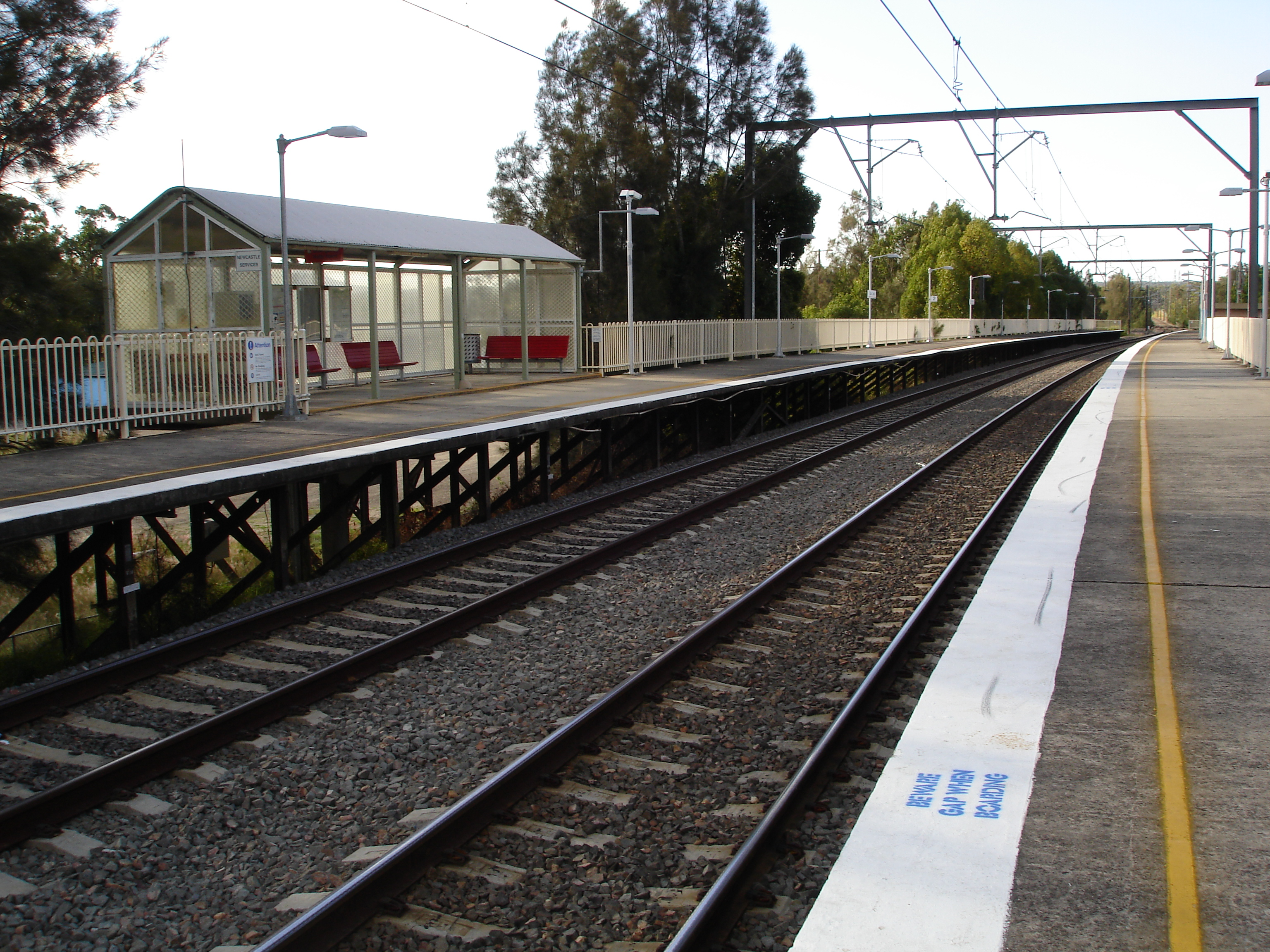 Dora Creek station looking northbound taken by MrTwig